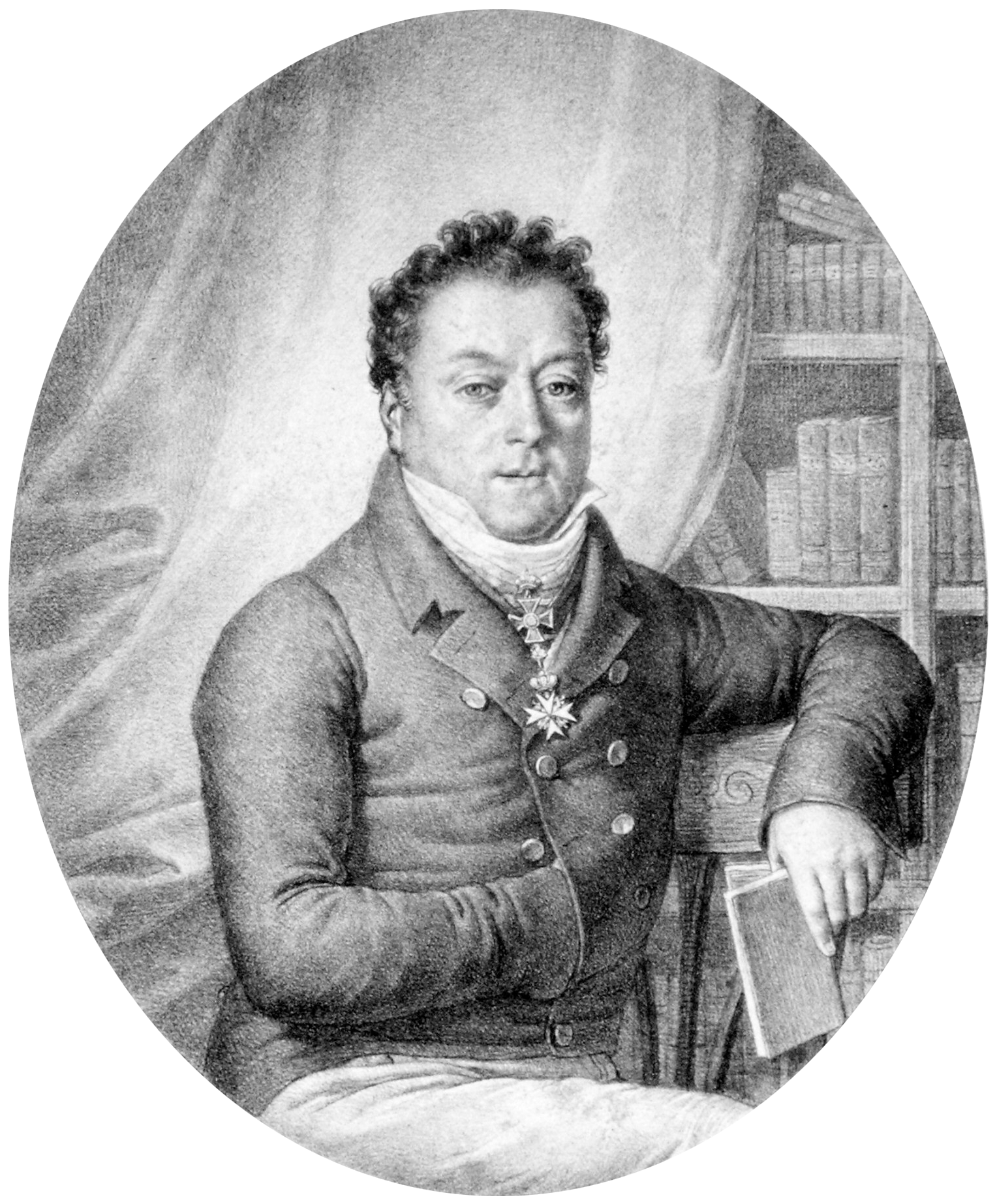 Portrait of Franz de Paula Adam von Waldstein